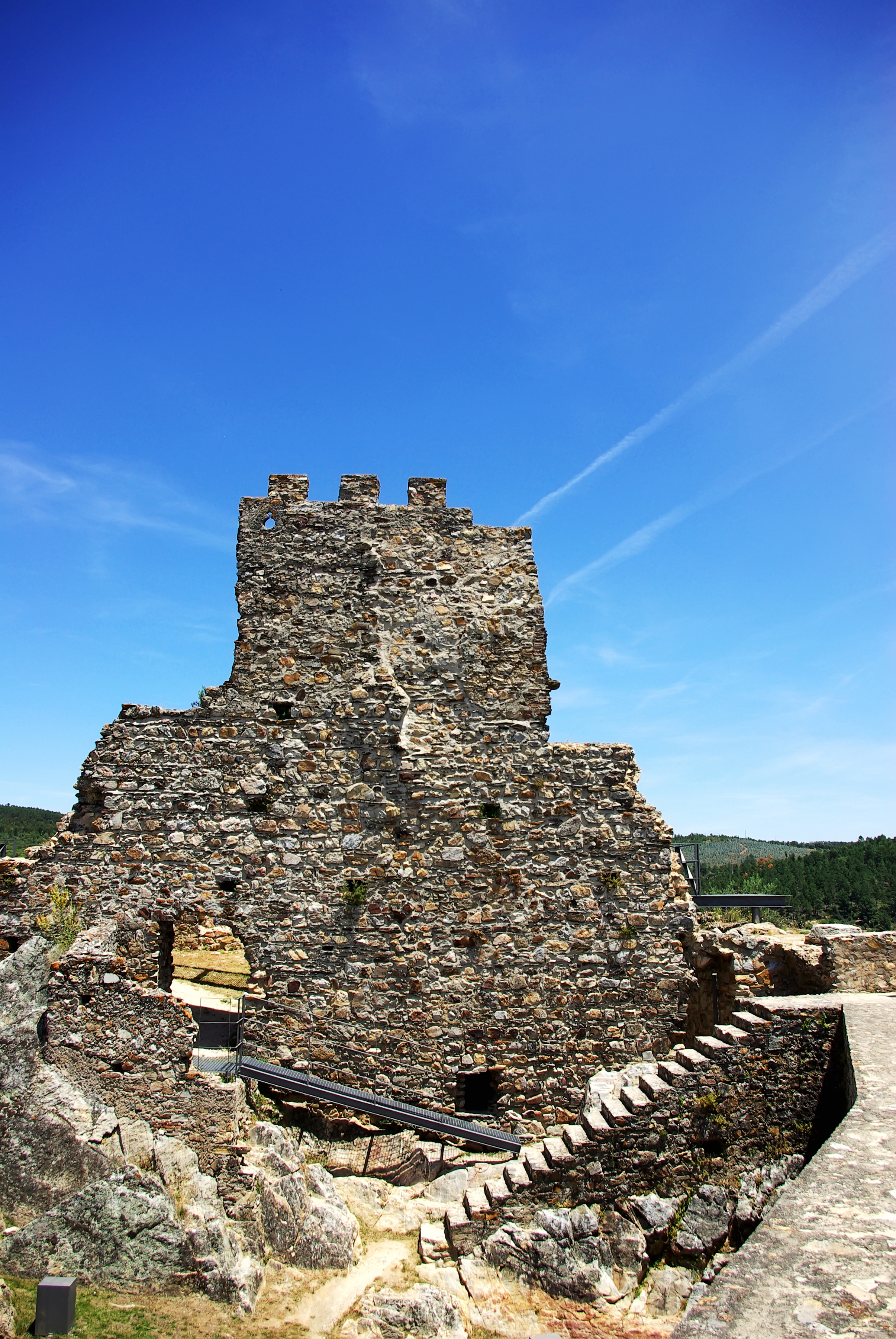 This file was uploaded for Wiki Loves Monuments in Portugal with the unique identifier 71109.